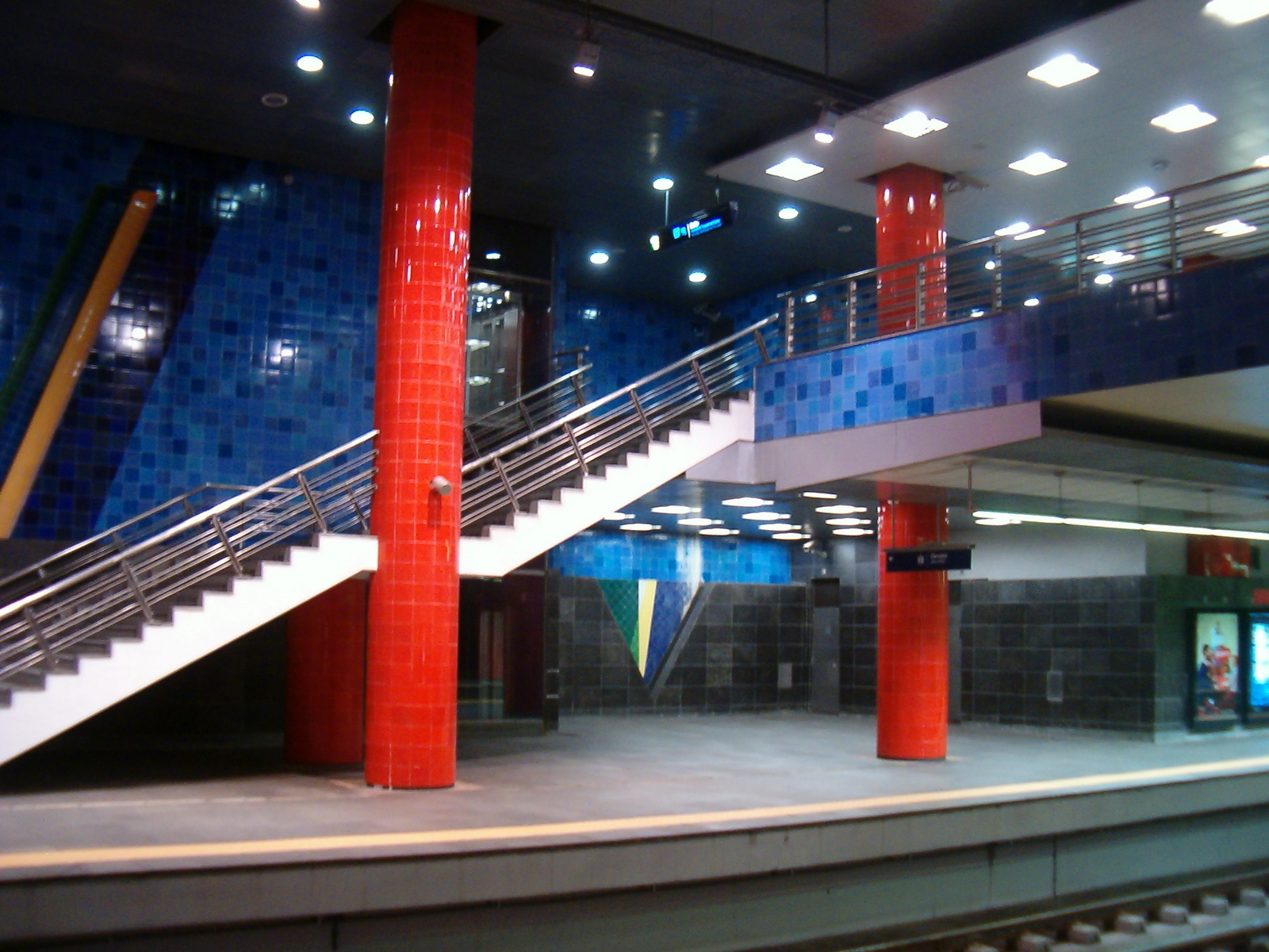 Metro station Chelas (Lisboa)